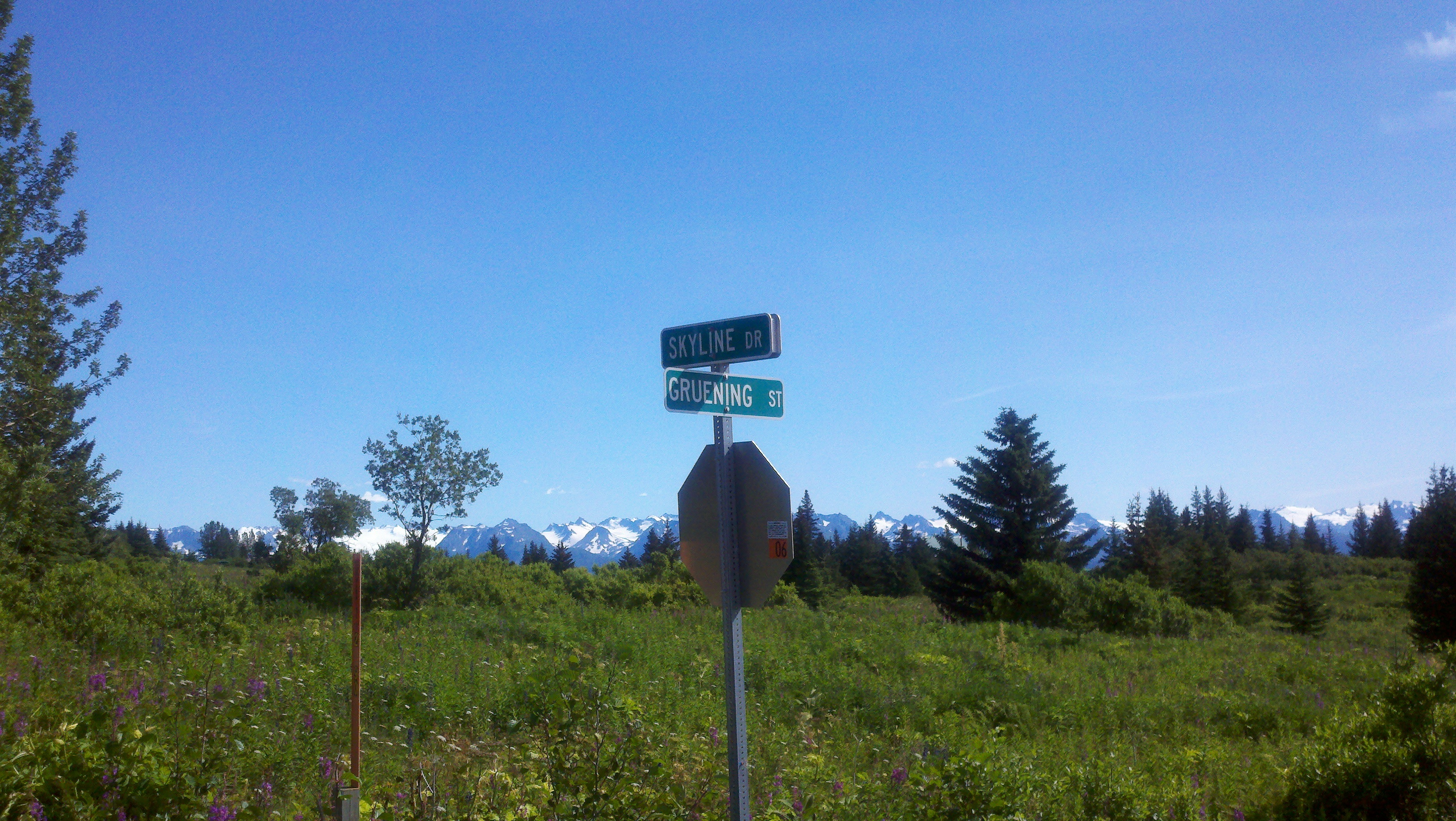 corner of Gruening and Skyline, Homer, Alaska